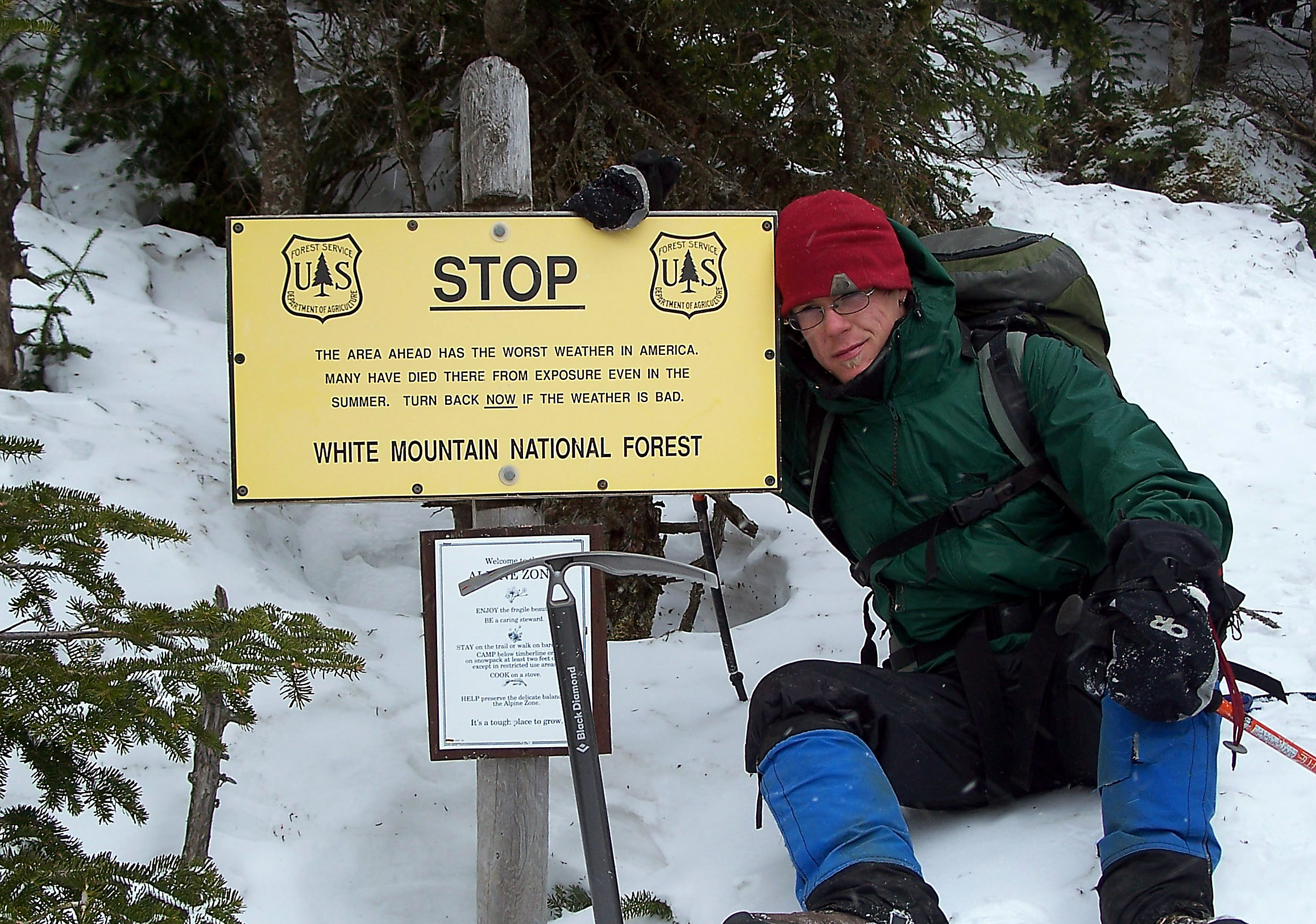 Hiker Ed Hawes poses at a sign warning of erratic weather above timberline in New Hampshire's White Mountains.